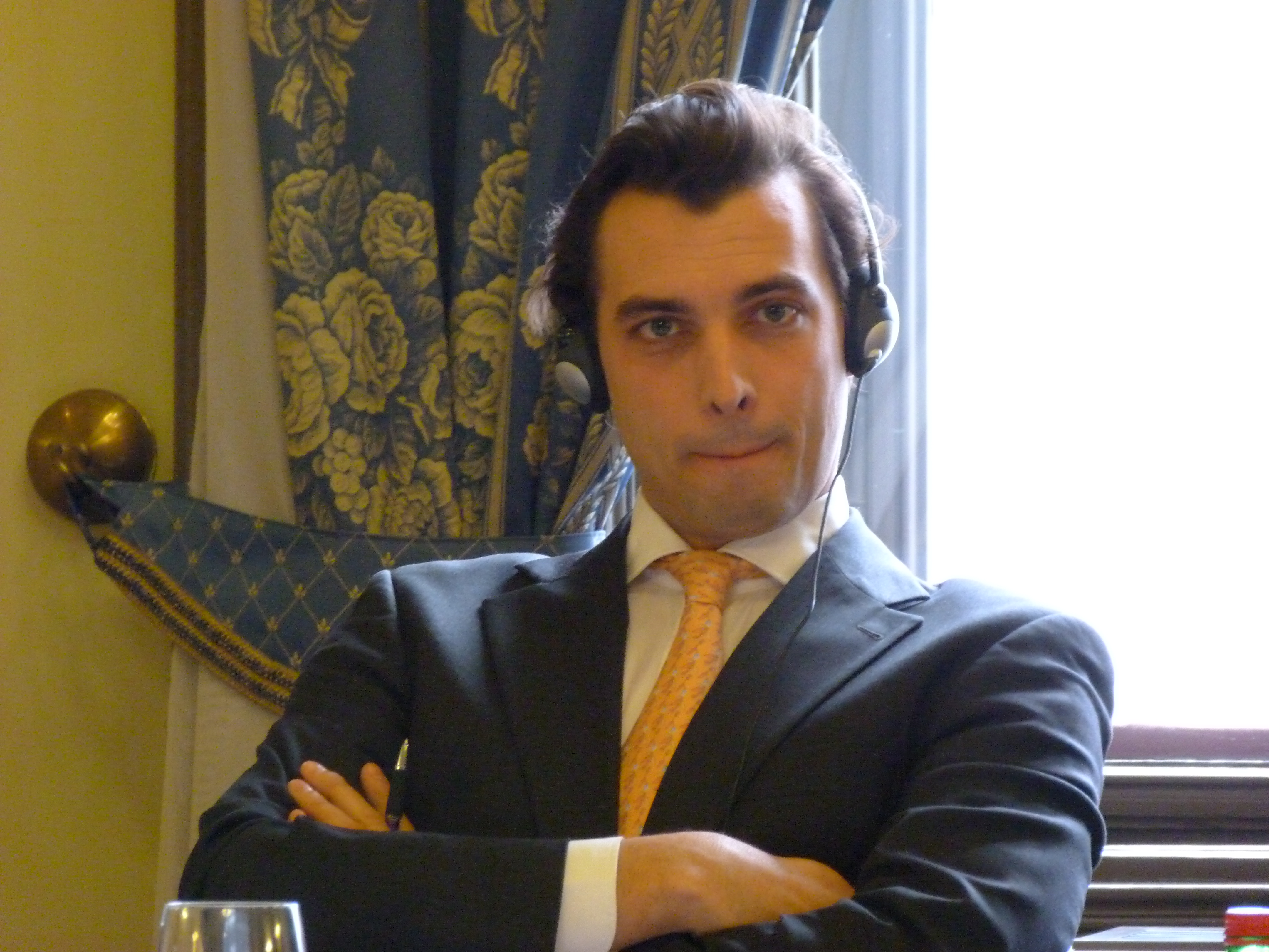 Live on the 8th of February, 2016. Hungarian Academy of Sciences. Századvég Alapítvány. Thierry Baudet, the Dutch journalist, broadcaster and author argued that national borders need to be maintained if representative government is to survive. To uphold borders is to claim jurisdiction; to claim the right to decide on the law. As nation state makes such a claim, it seeks jurisdiction over a particular territory. Borders work two-ways, and while they grant the nation state exclusive jurisdiction, they also limit the nation state’s claims to the designated territory. Supranationalism and multiculturalism undermine the idea of exclusive territorial jurisdiction. Supranationalism grants institutions the power to break through national borders and to overrule the nation state’s territorial arrangements. In this way, borders become increasingly porous. Multiculturalism, meanwhile, not only deligitimizes the nation state’s borders by weakening the collective identity of the people living behind them; it also encourages religious sub-groups to invoke rules from beyond the nation state’s borders, thereby undermining the very idea of territorial jurisdiction. ‘God’s heart has no borders’, to put it bluntly.1 Supranationalism and multiculturalism are thus antithetical to national sovereignty and to the borders therein implied. Supranationalism dilutes sovereignty, and so brings about the gradual dismantling of borders from the outside; multiculturalism weakens nationality, thus delegitimizing their existence altogether from the inside. !e idea of political organization that fundamentally opposes supranationalism and multiculturalism – the idea of the nation state – has been declared ‘outdated’ and ‘irrelevant’ by an overwhelming number of commentators. In: )